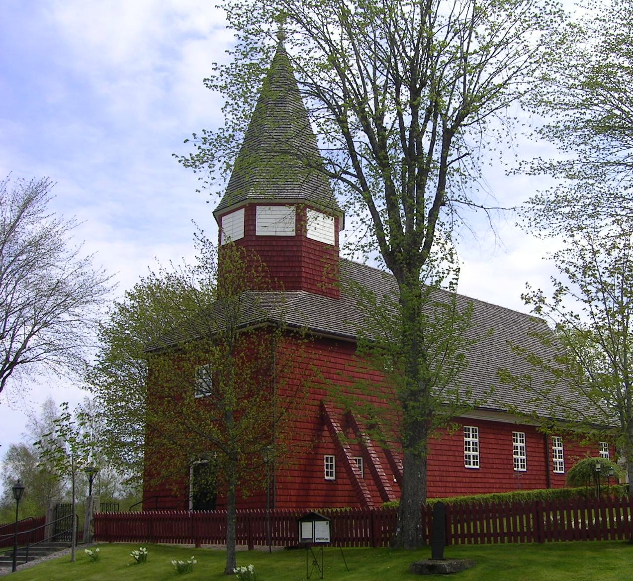 Bondstorp church seen from the west